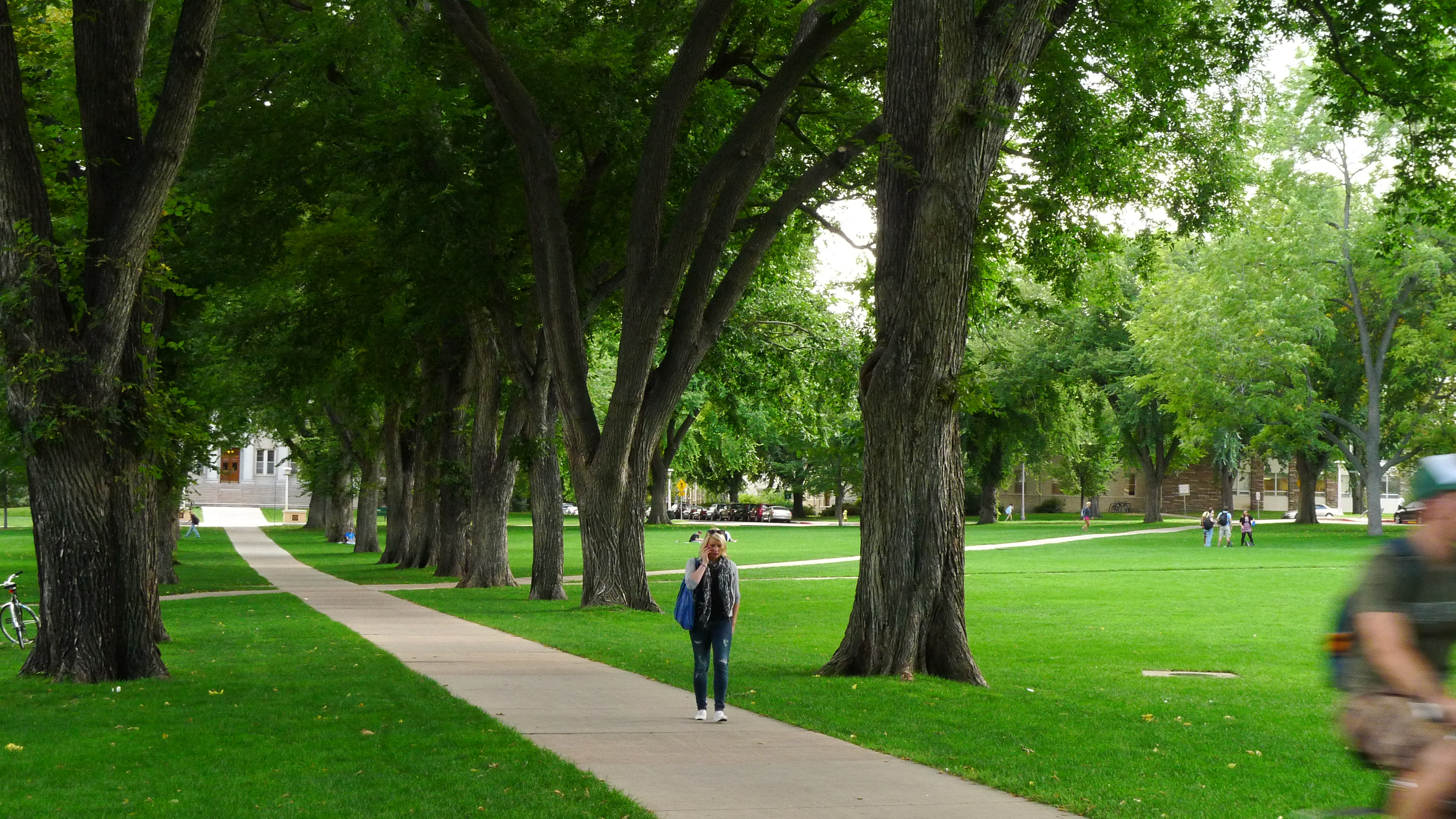 The Oval, to this day a focal point of activity on campus